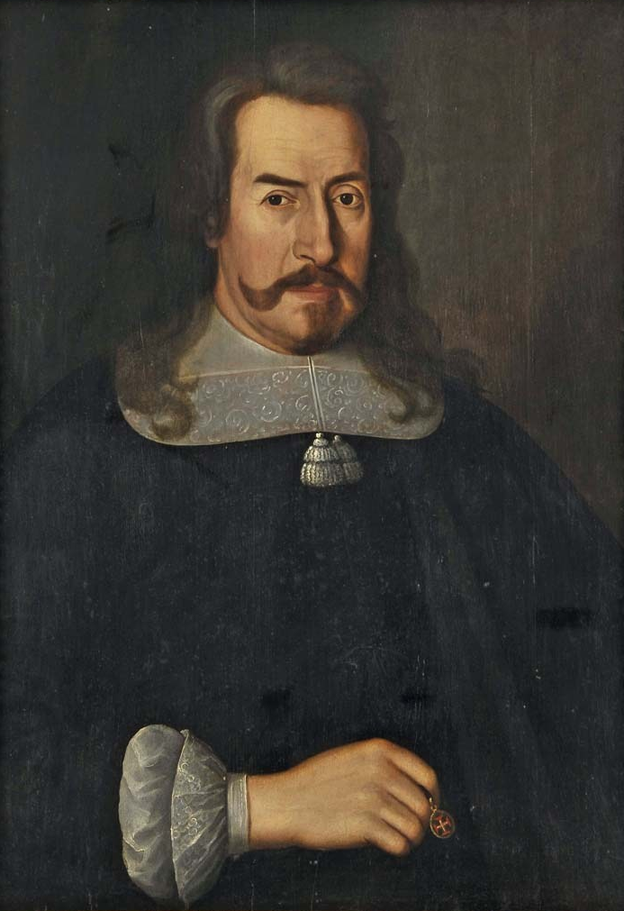 Portrait painting of D. António Luís de Meneses, 1st Marquis of Marialva (1596-1675)